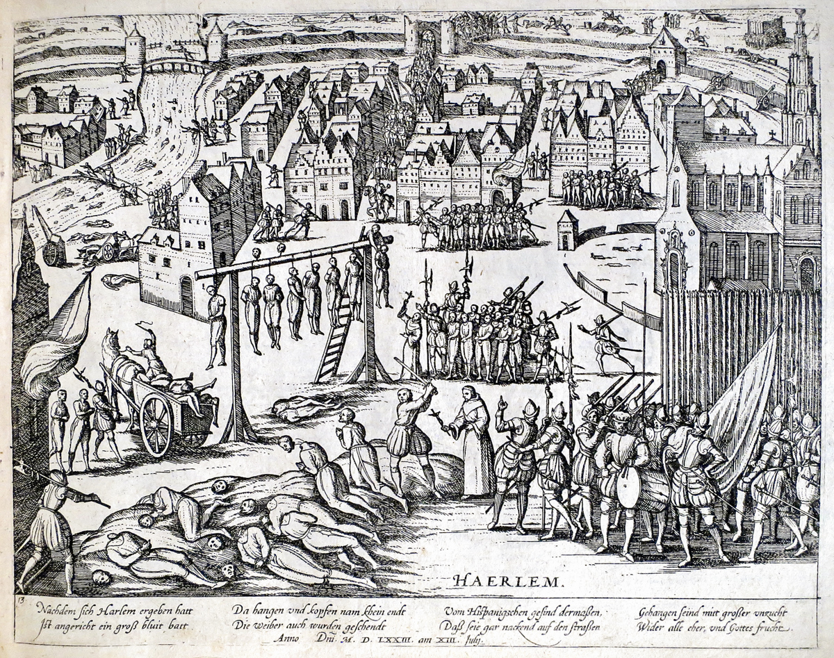 Engraving that depicts repression after the surrender of the rebel city of Haarlem (Netherlands) to Spanish troops on 13 July 1573. The author, a protestant, emphasizes alleged atrocities and deaths of civilians. Copper engraving by Frans Hogenberg, published in Cologne around 1600.